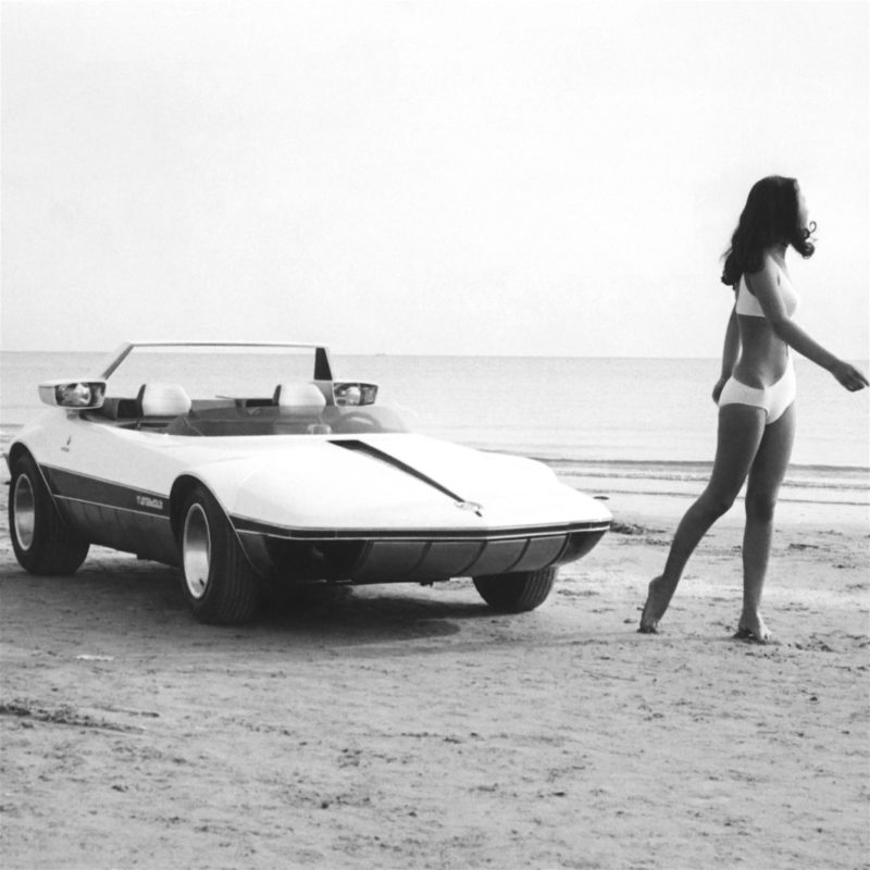 Autobianchi A112 Roundabout on the beach